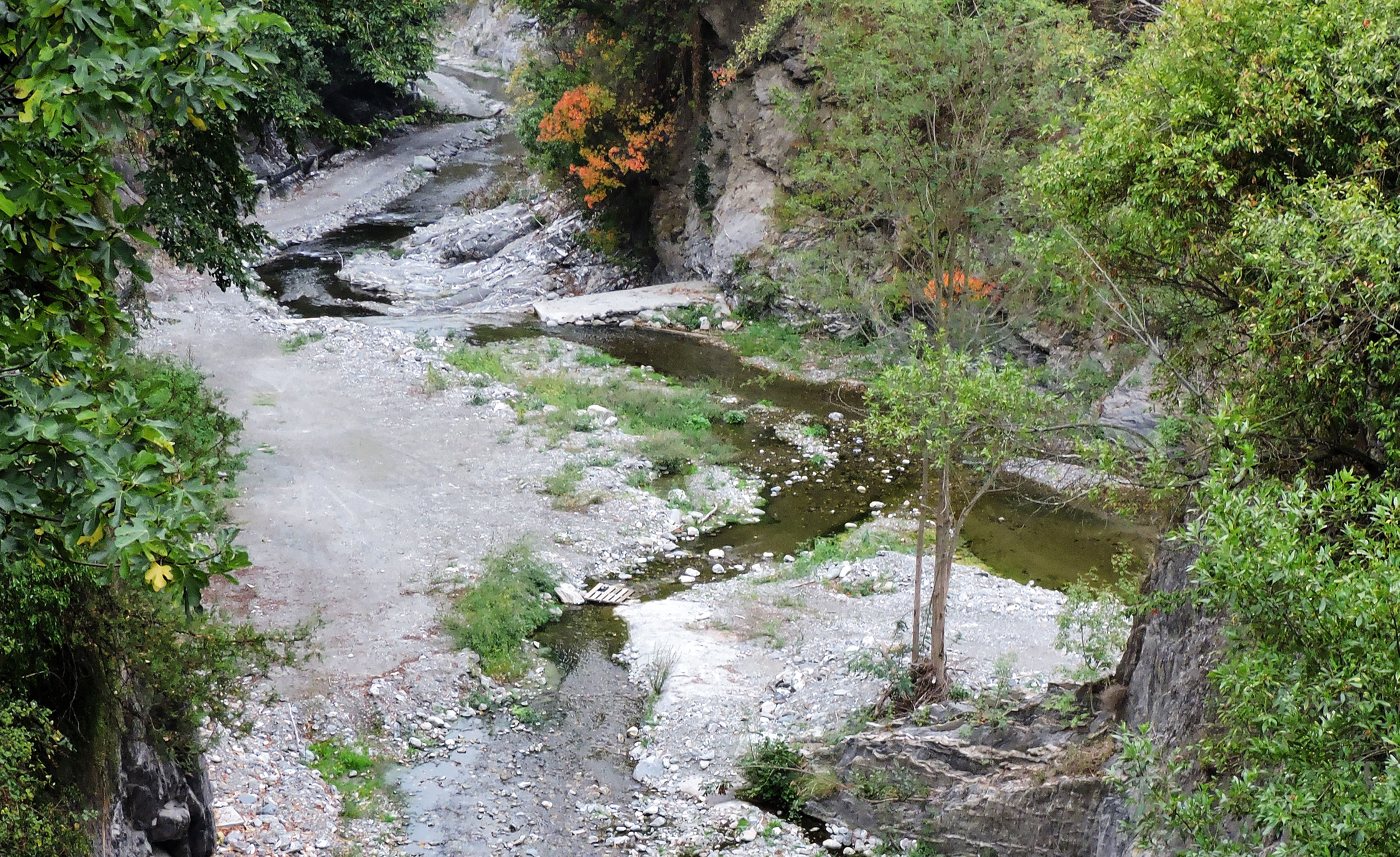 Arroscia/Arogna jonction in Pieve di Teco (Liguria, Italy)